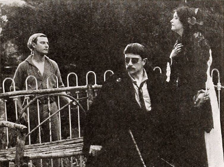 Still from the drama film The Feast of Life (1916), on page 243 of the June 1916 Cine-Mundial (American Spanish language magazine). The still has Robert Frazer, Paul Capellani, and Clara Kimball Young.